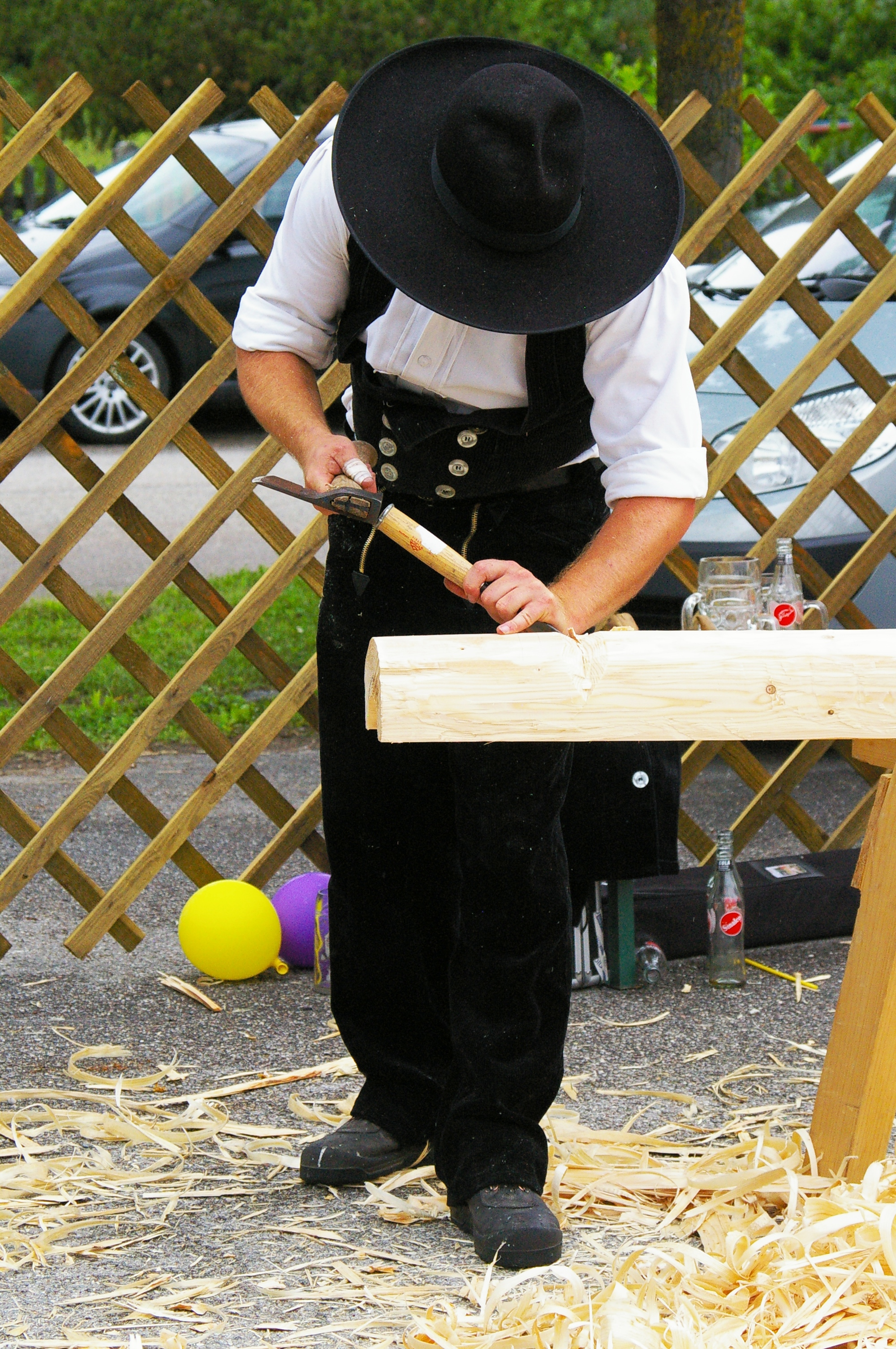 carpenter in a craft market